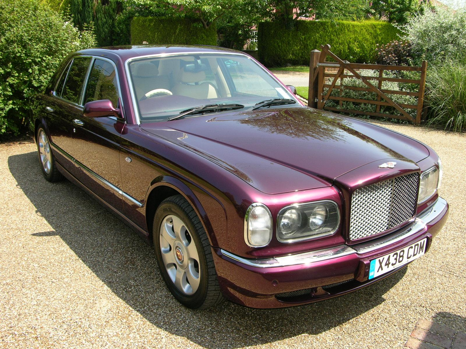 Bentley Arnage Red Label